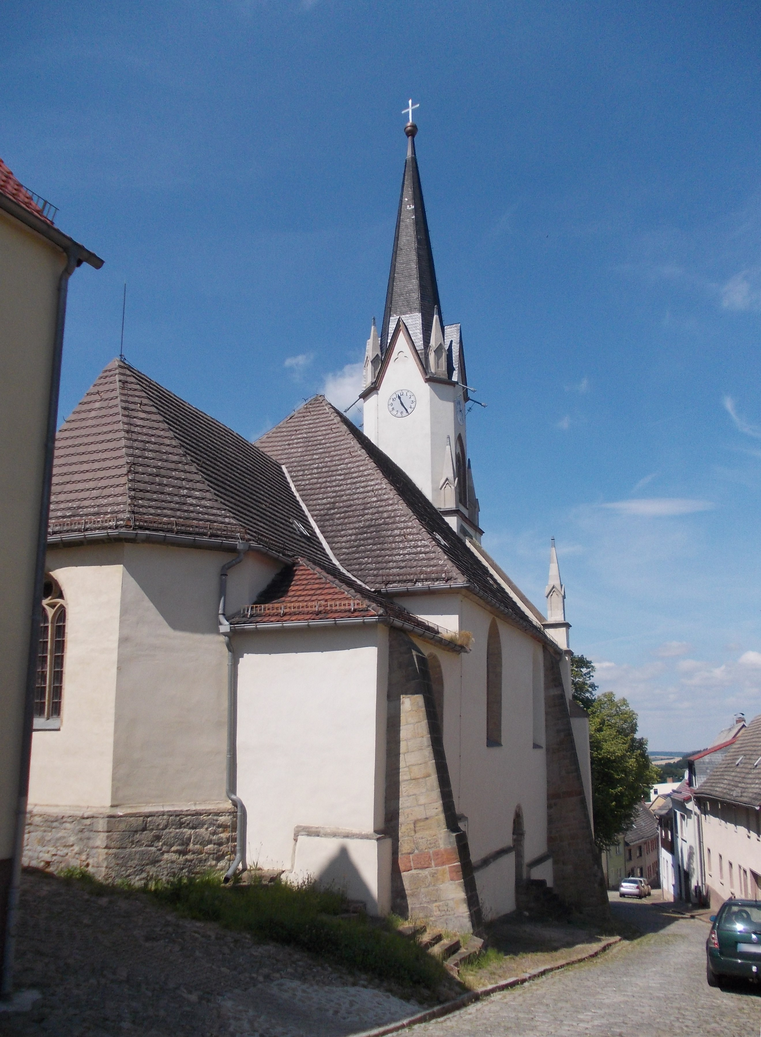 Osterfeld church (district: Burgenlandkreis, Saxony-Anhalt)